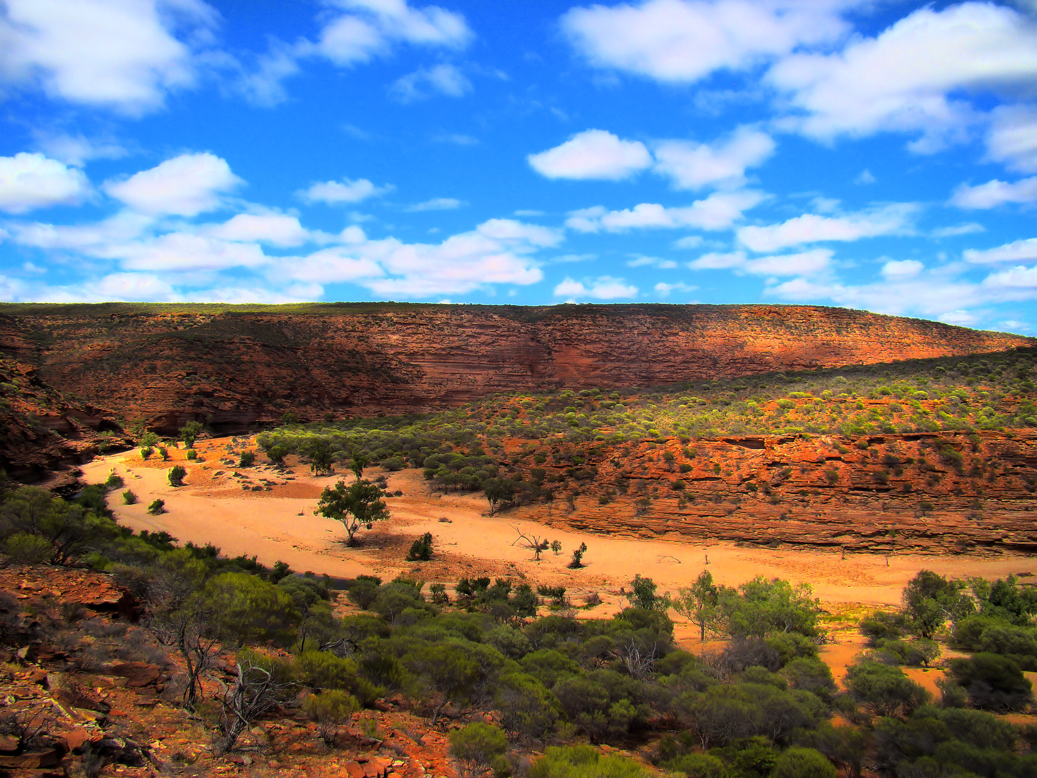 Kalbarri National Park, a river bend in an inland park section called The Loop